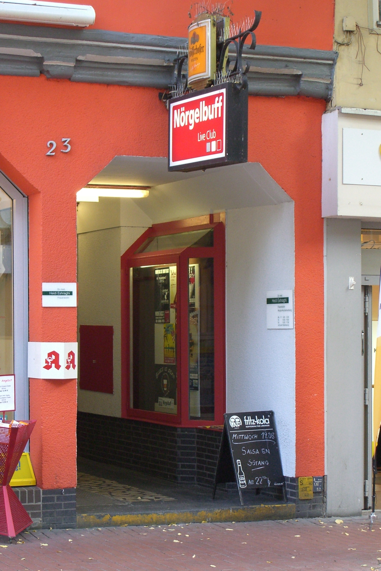 Entrance to the club "Nörgelbuff" in Göttingen.